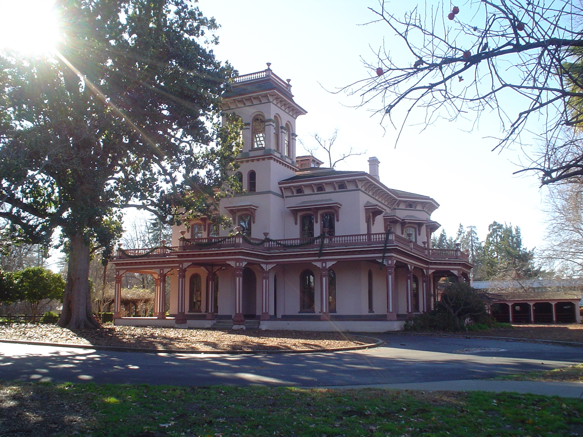 Bidwell Mansion in Chico, California.